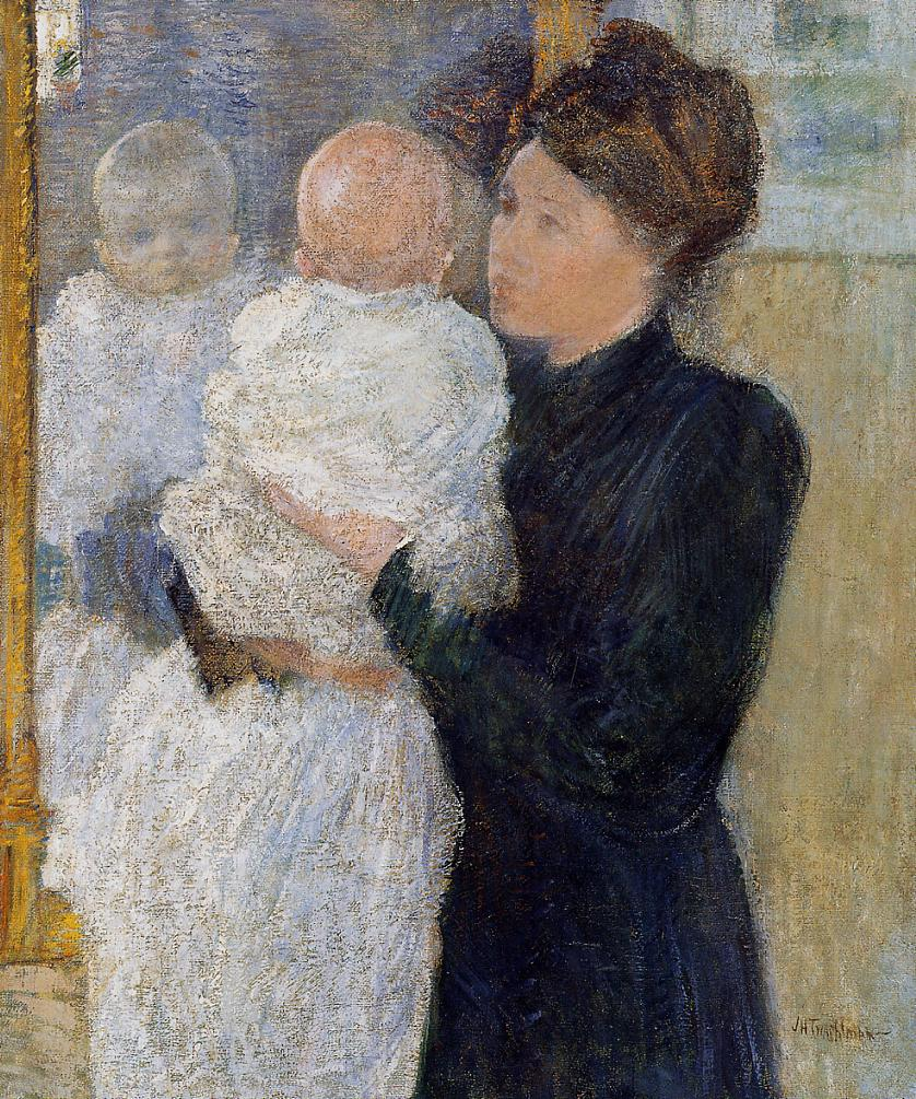 John Henry Twachtman (1853–1902) Alternative names Twachtman, John H.DescriptionAmerican painterDate of birth/death 4 August 1853 8 August 1902Location of birth/death Cincinnati GloucesterWork location United States, FranceAuthority control : Q1342683 VIAF: 23008140 ISNI: 0000 0000 6680 976X ULAN: 500006514 LCCN: n79061318 WGA: TWACHTMAN, John Henry WorldCat creator QS:P170,Q1342683 Mother and Child